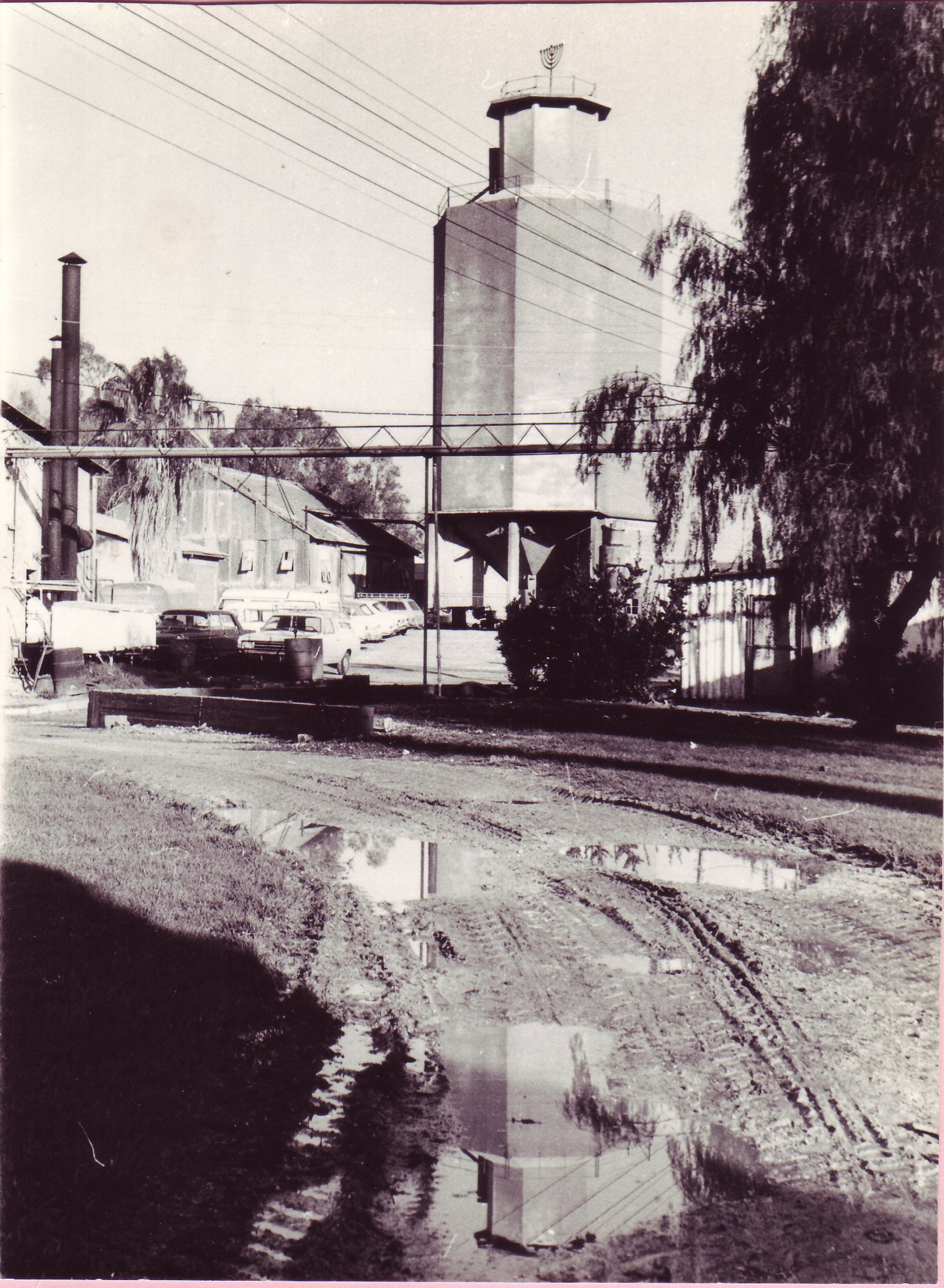 Heritage Trail sites at Kibbutz Ramat Yohanan, Architecture of Israel